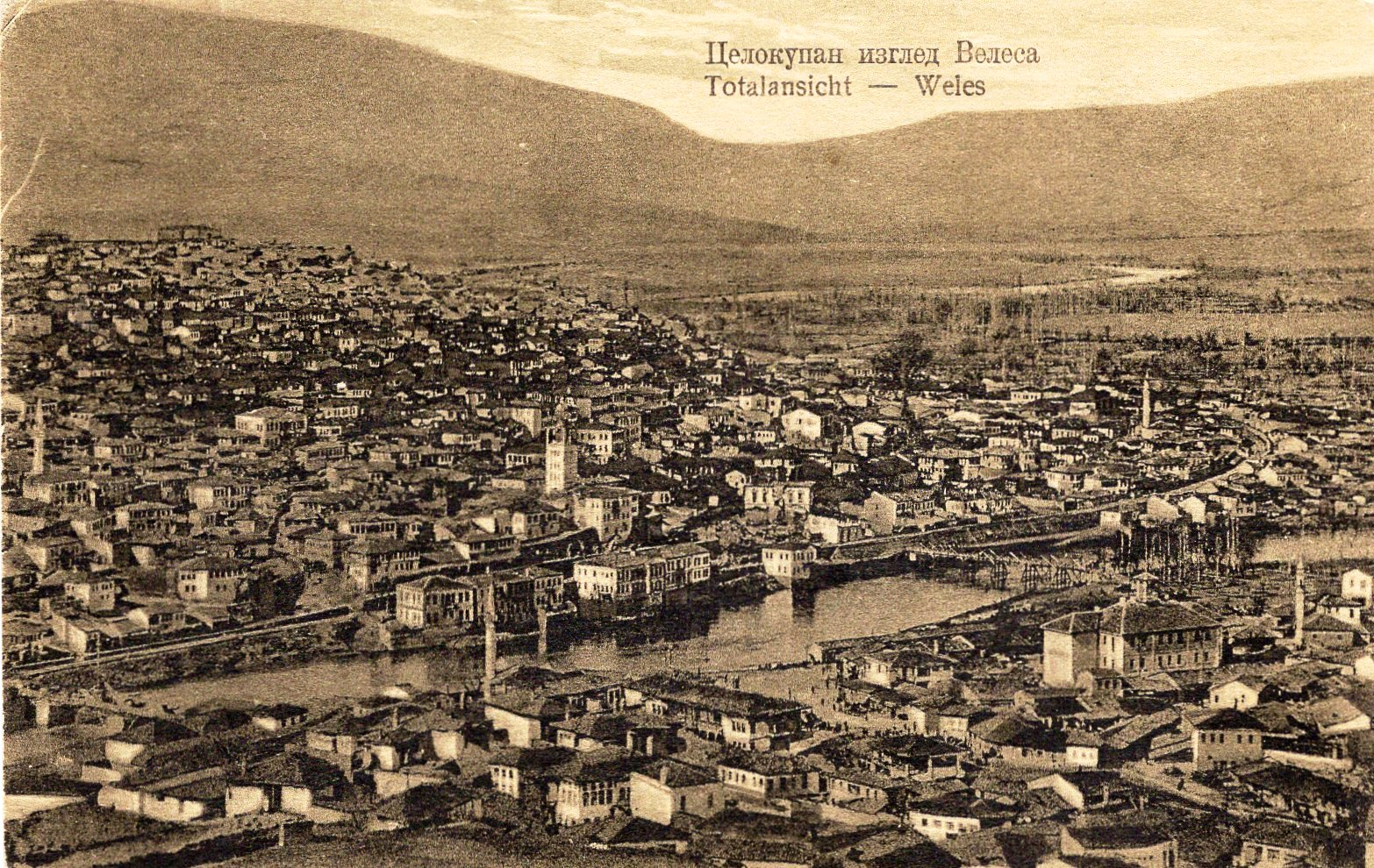 Postcard of Veles, whole town, from 1930's This media file is produced by Wikipedian in Residence in Category:Wikipedian in Residence at DARM in 2016.